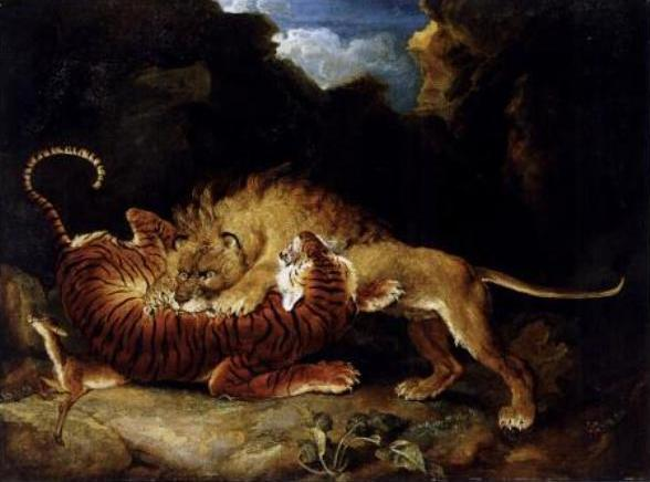 "Lion and Tiger Fighting" by James Ward, Oil on Canvas 1797